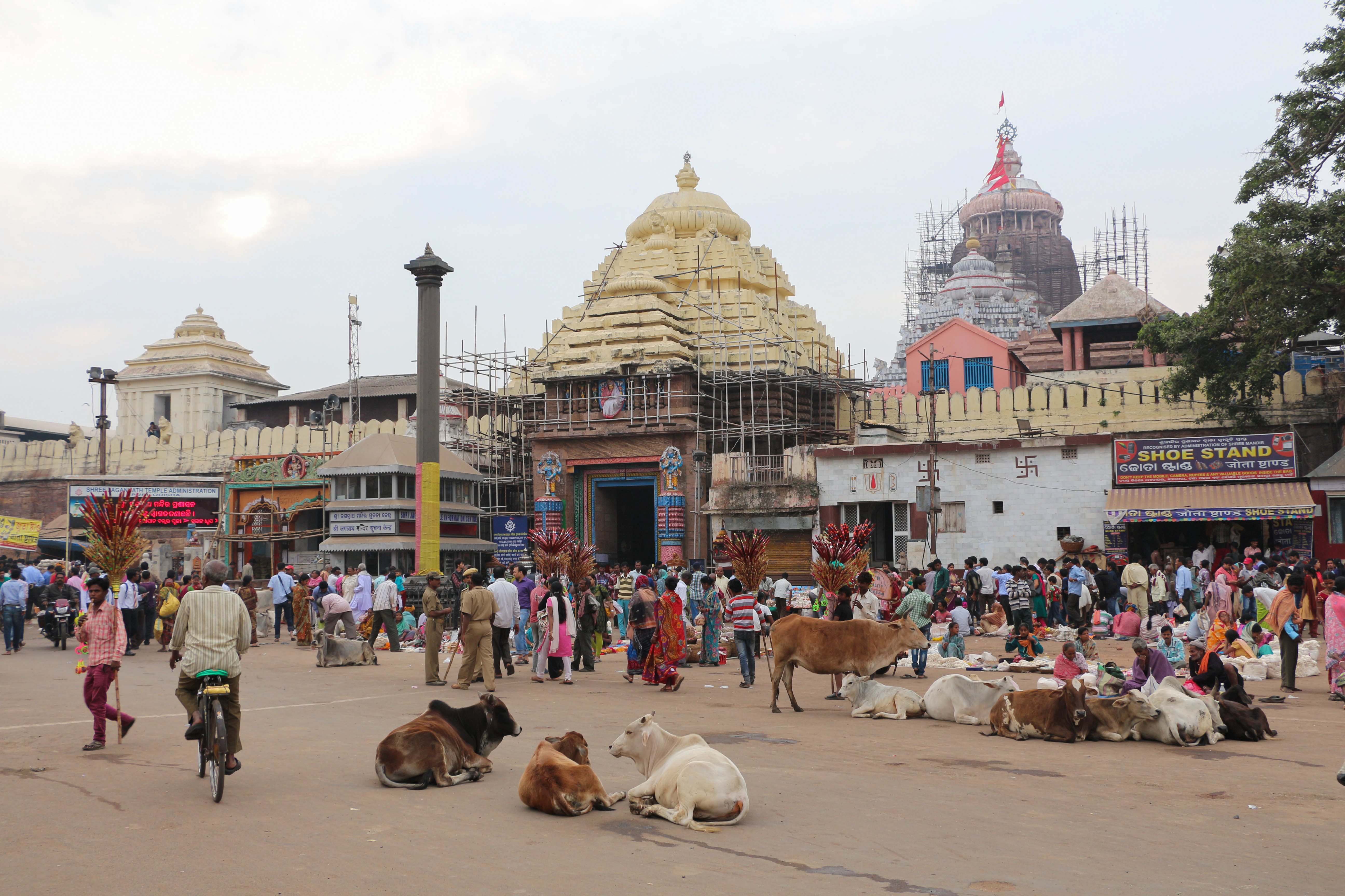 Main entrance of the Jagannath Temple, Puri, India